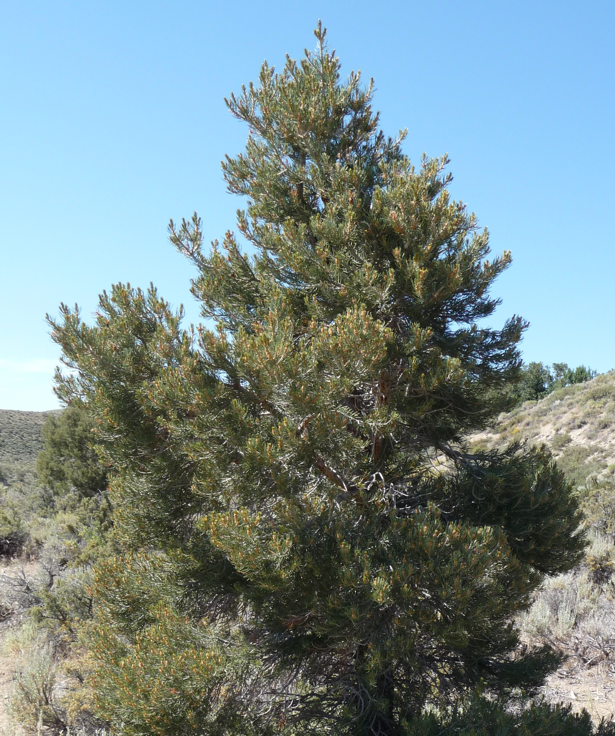 Single-leaf Pinyon Pine (Pinus monophylla) near Lee Vining Creek and Mono Lake, in the Eastern Sierra Nevada, in California.